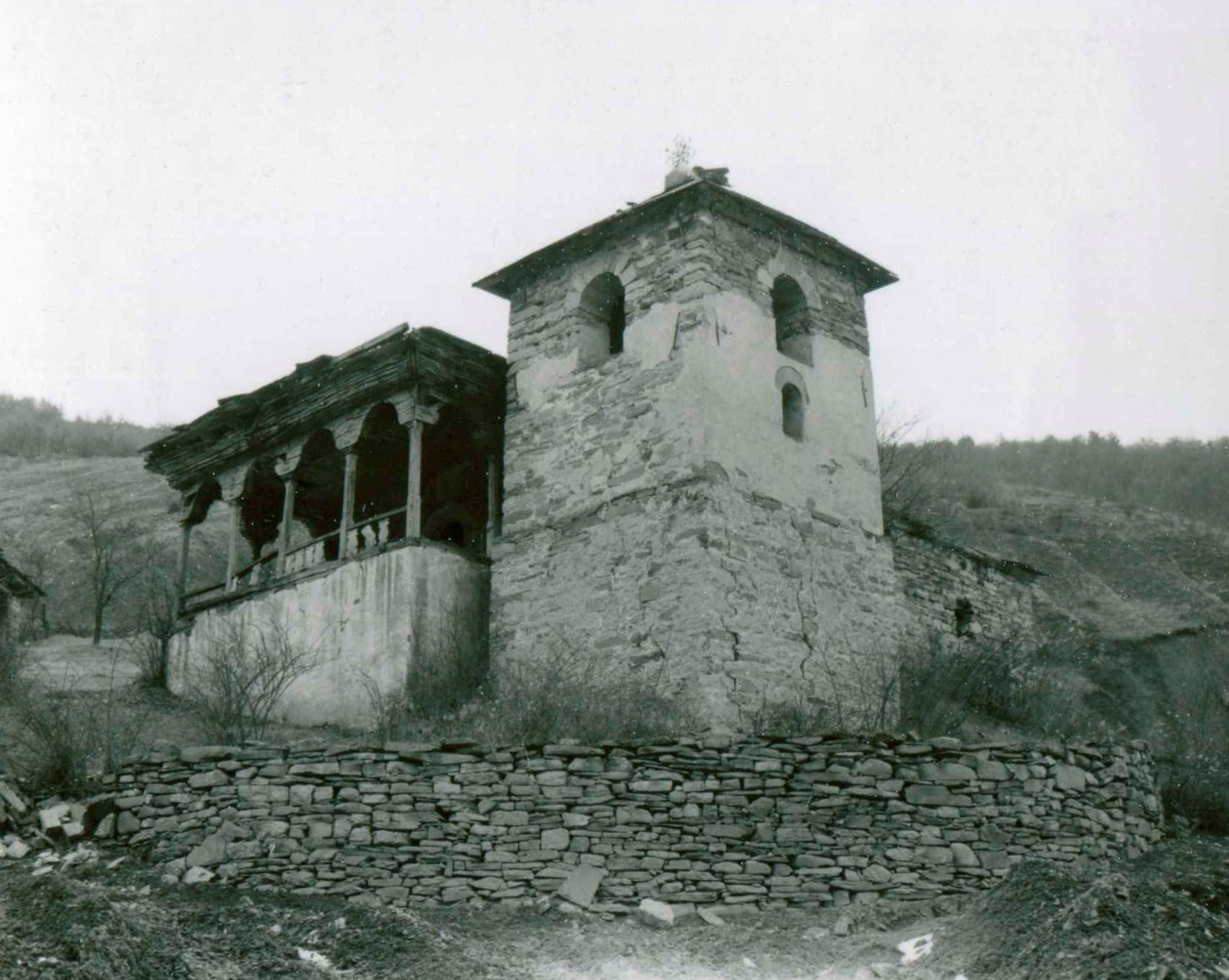 Church of the Dormition of the Lord in Zavoj, Pirot